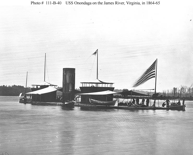 USS Onondaga, a large monitor, launched 1863.